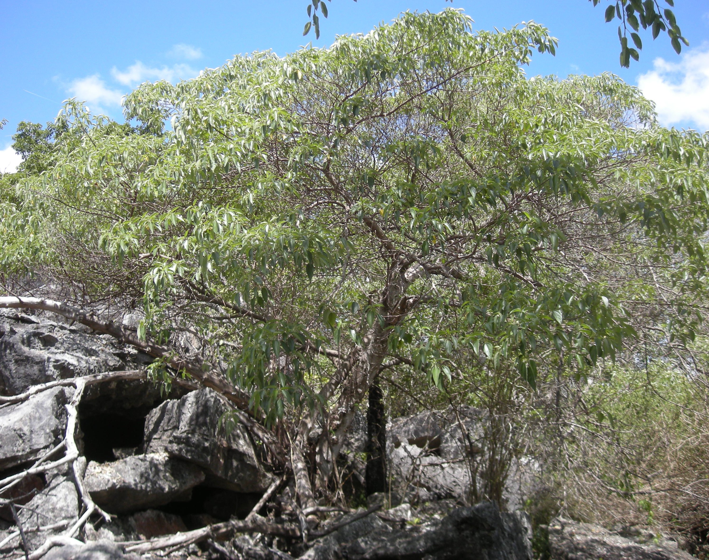 Pipturus argenteus tree